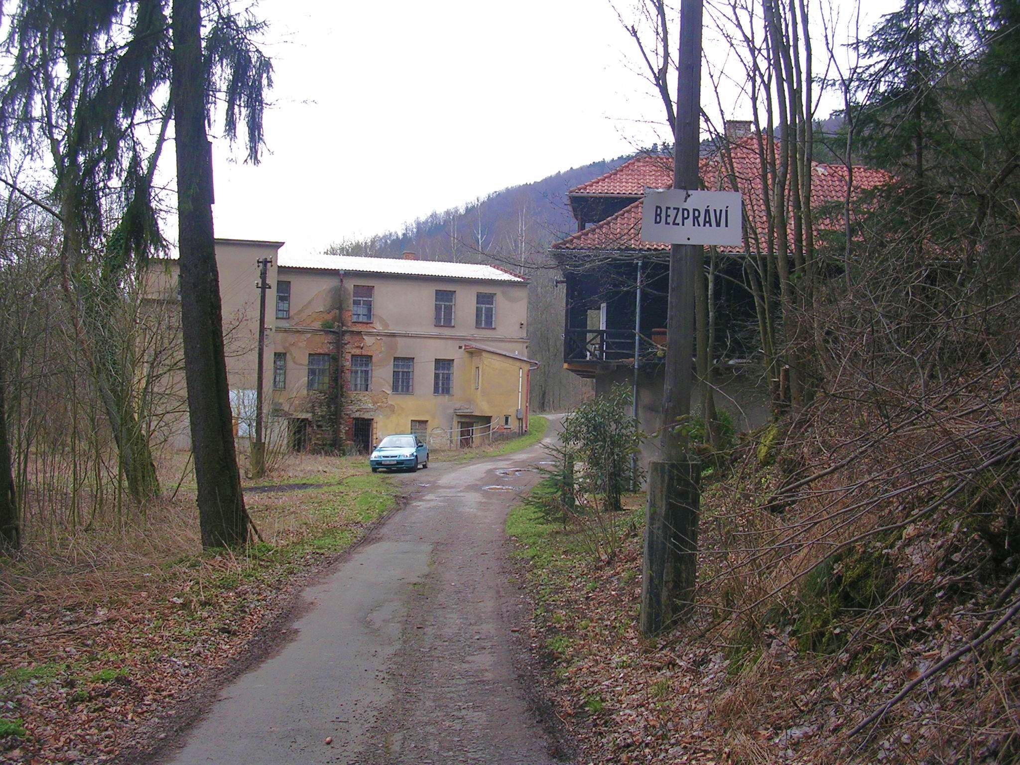 Bezpráví, Orlické Podhůří, the Czech Republic.